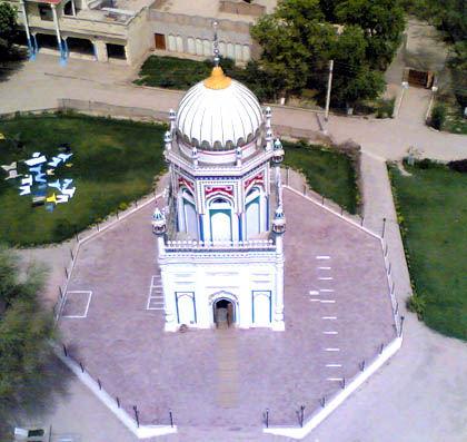 qibla jhang